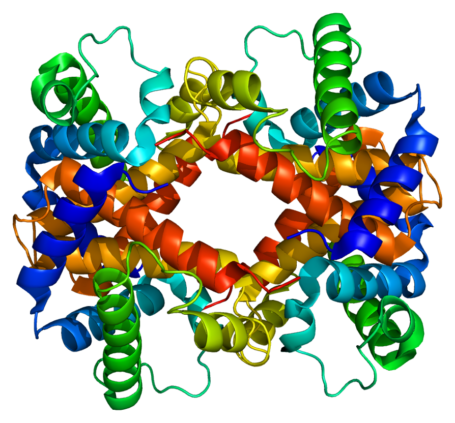 Structure of the HBG2 protein. Based on PyMOL rendering of PDB 1fdh.